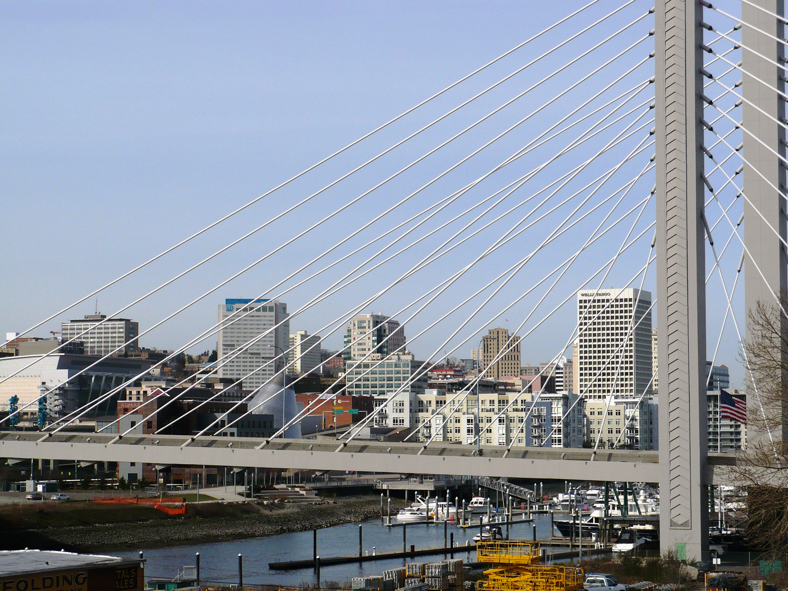 Skyline view of Tacoma, Washington